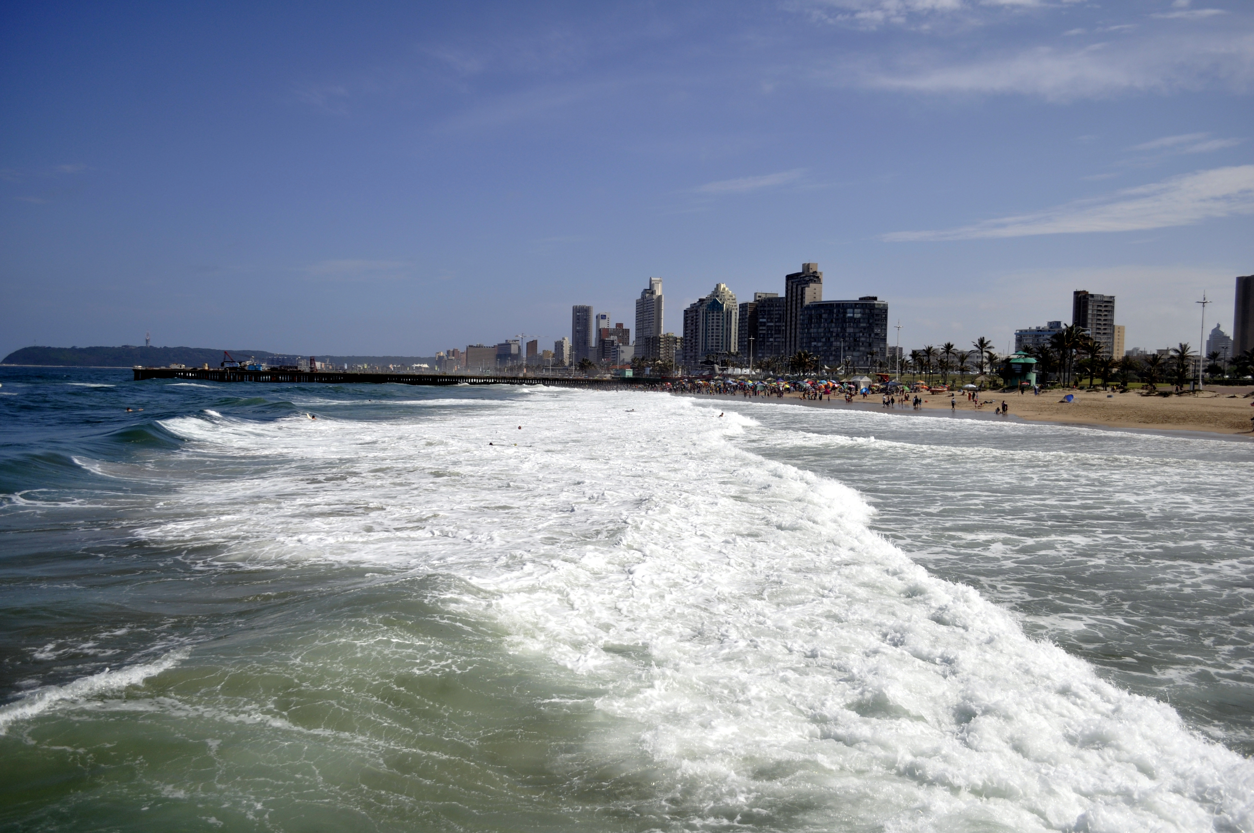 KZN, South Africa